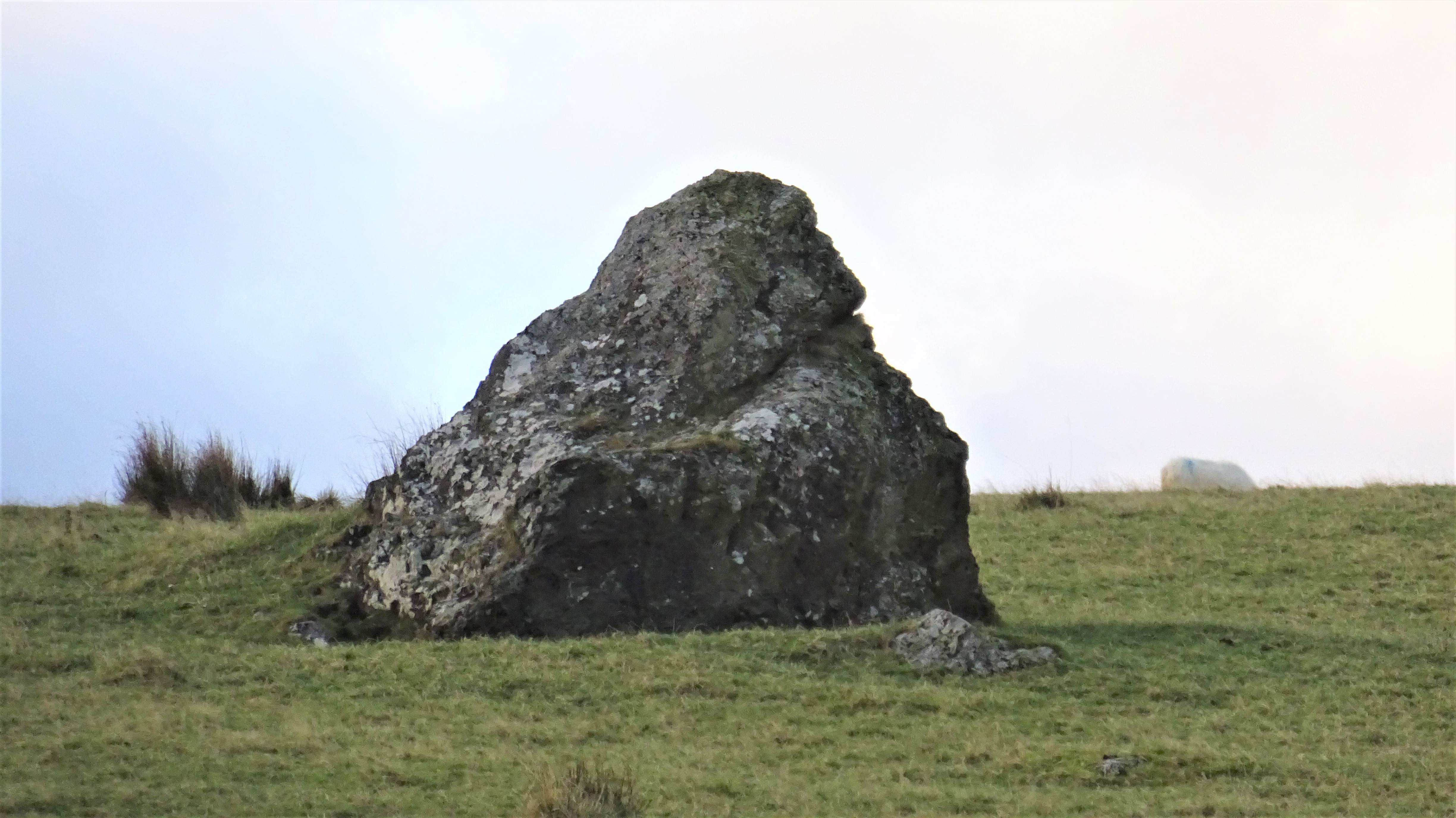 The Catstone, Blackstone Farm near Giffordland, North Ayrshire. Clach-a-Chath in Gaelic. The name 'Cat' is applied to many stones, such as the 'Cat Stone' on the Isle of Arran near the village of Corrie and the Cat Stane near Edinburgh Airport. 'Cat' is thought to come from 'Cath', a Celtic word, meaning a 'battle.' The Norwegian term, 'Bauta Stein', means the same thing. A suggestion is that such stones were rallying places for clan members, etc. prior to battles, etc.